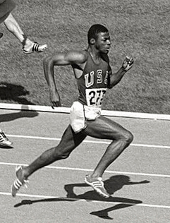 Ervin Hall, first semi-final of men's 110 metre hurdles in Mexico City Olympics